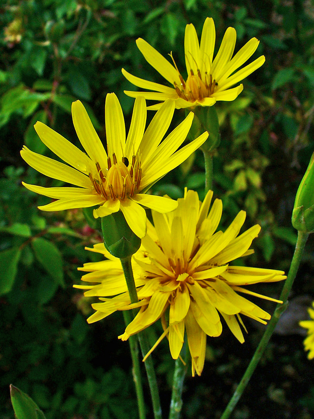 Scorzonera hispanica, Asteraceae, Black Salsify, Spanish Salsify, Black Oyster Plant, Serpent Root, Viper's Herb, Viper's Grass, flowers. Botanical Garden KIT, Karlsruhe, Germany.